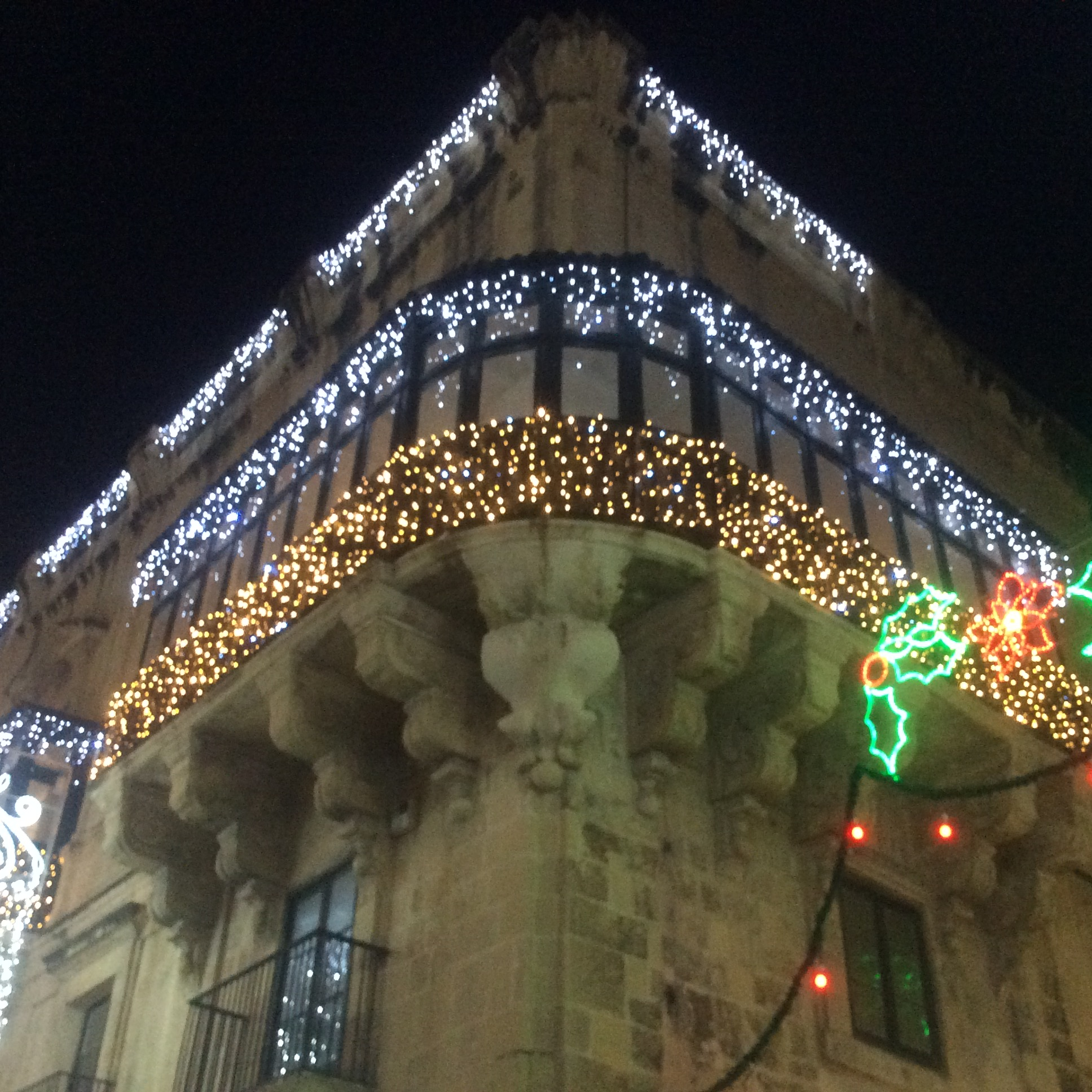 Valletta This media is about Maltese cultural property with inventory number 01572.